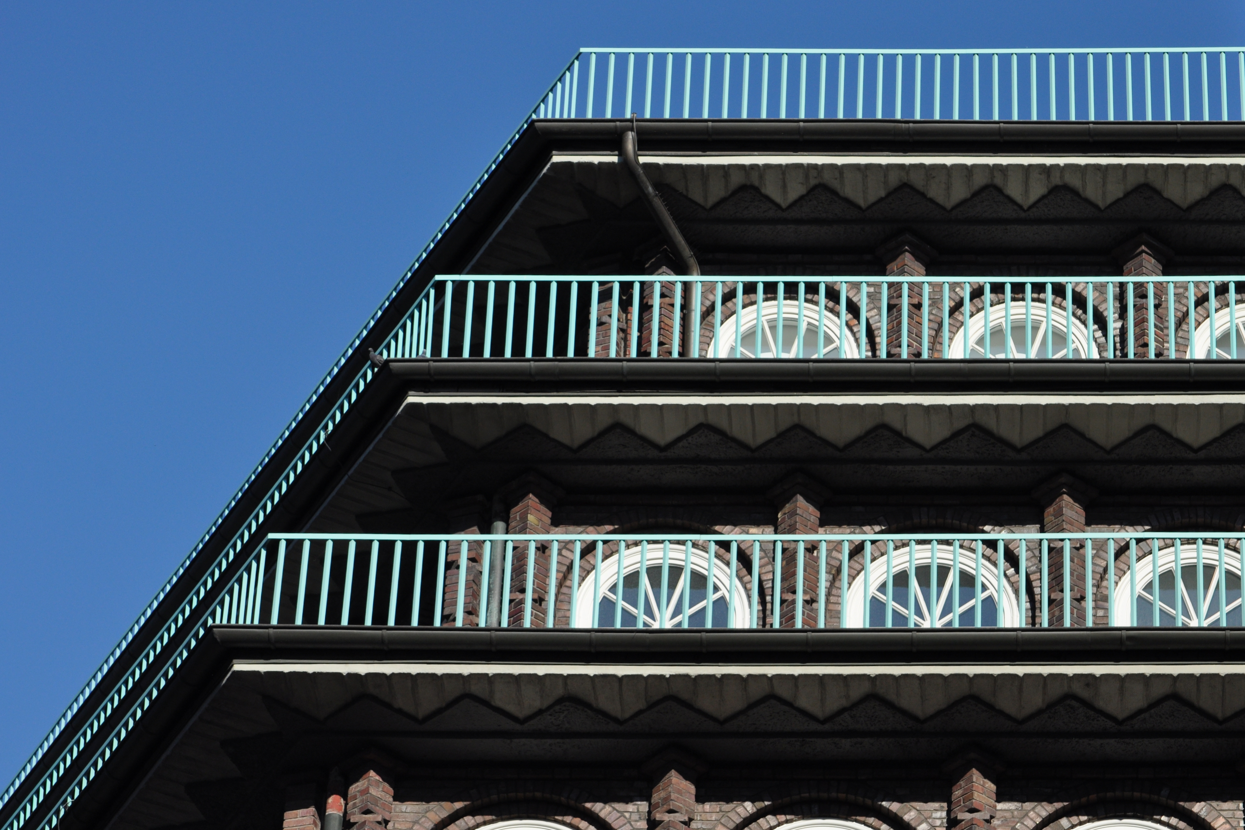 Detail of Chilehaus office building in Hamburg.